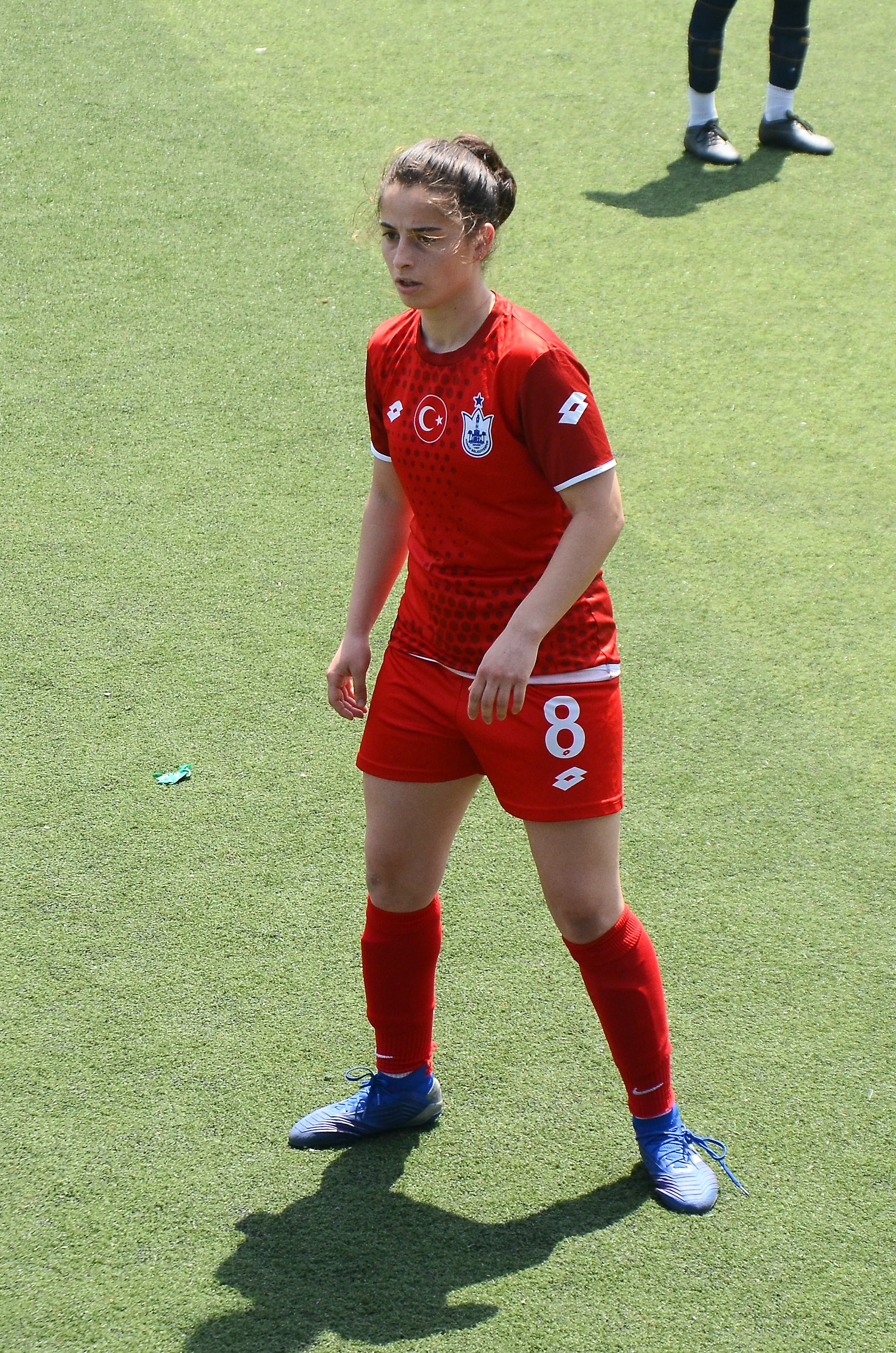 Sümeyra Kıvanç of Konak Belediyespor in the 2018-19 Turkish Women's First League.